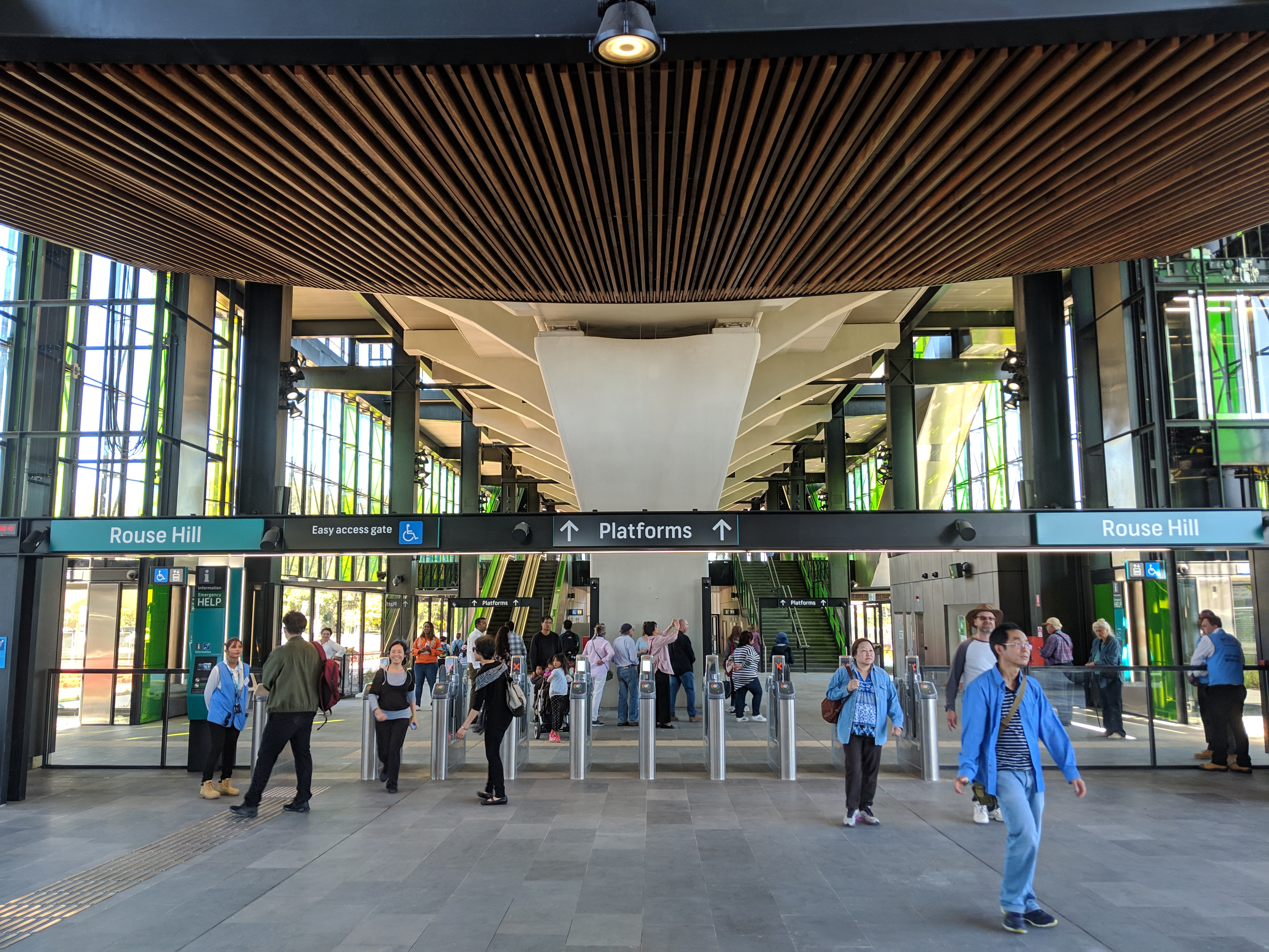 Rouse Hill Station, Sydney Metro